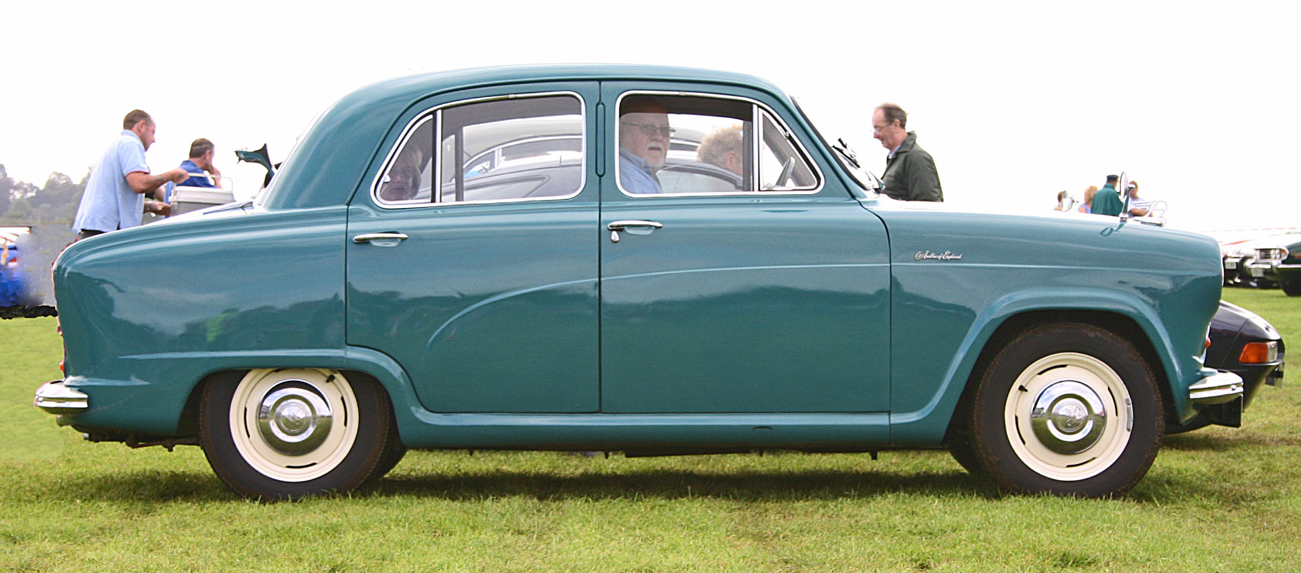 The A40 and A50 Cambridge shared the same body, the A50 had a more powerful engine and was better equipped. Redsimon 21:12, 3 July 2007 (UTC)